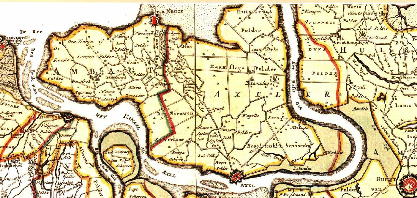 Oude landkaart van het Land van Axel, rond het jaar 1747